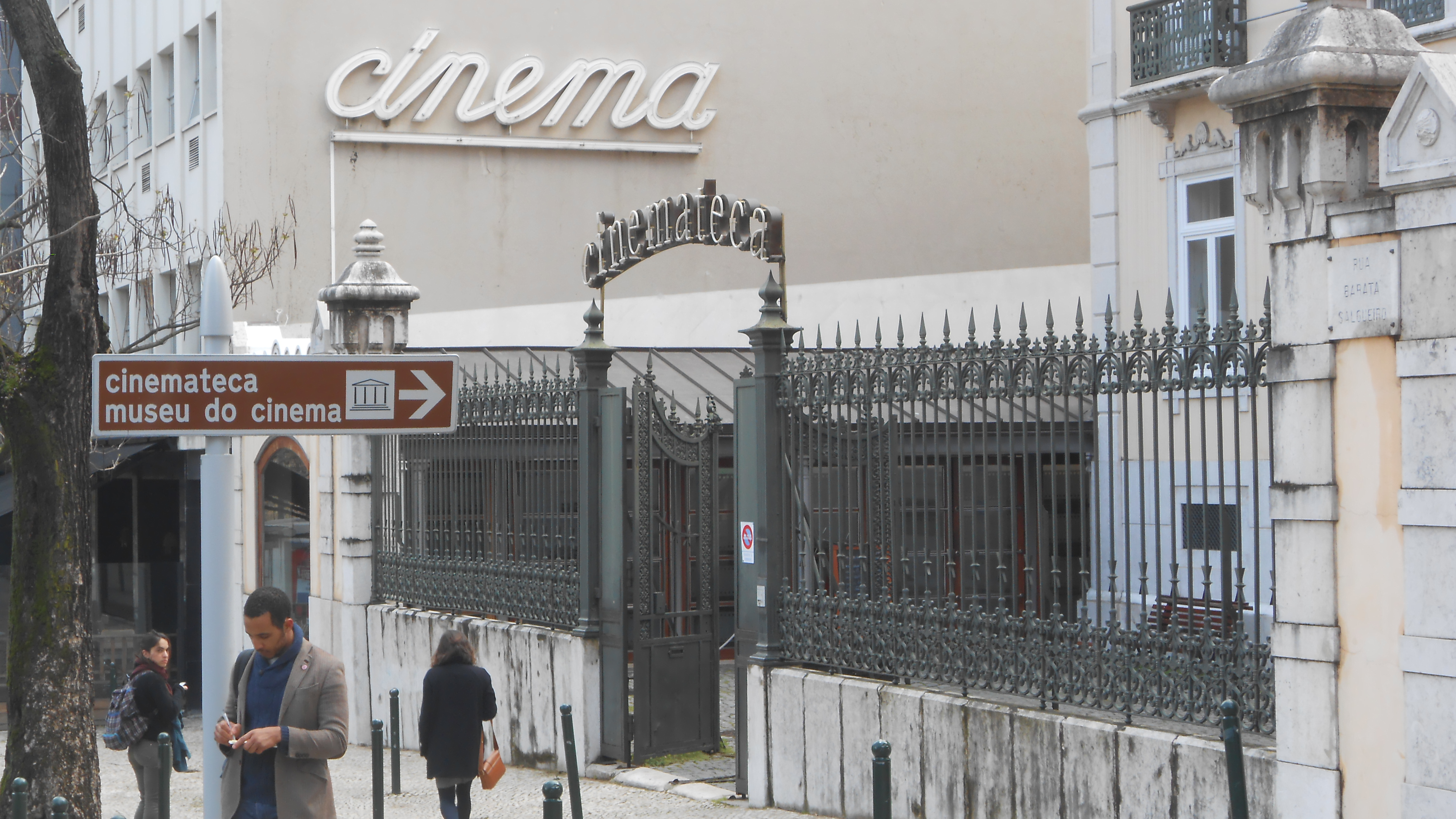 The Cinemateca Portuguesa, the film museum in Lisbon in the Rua Barata Salgueiro street